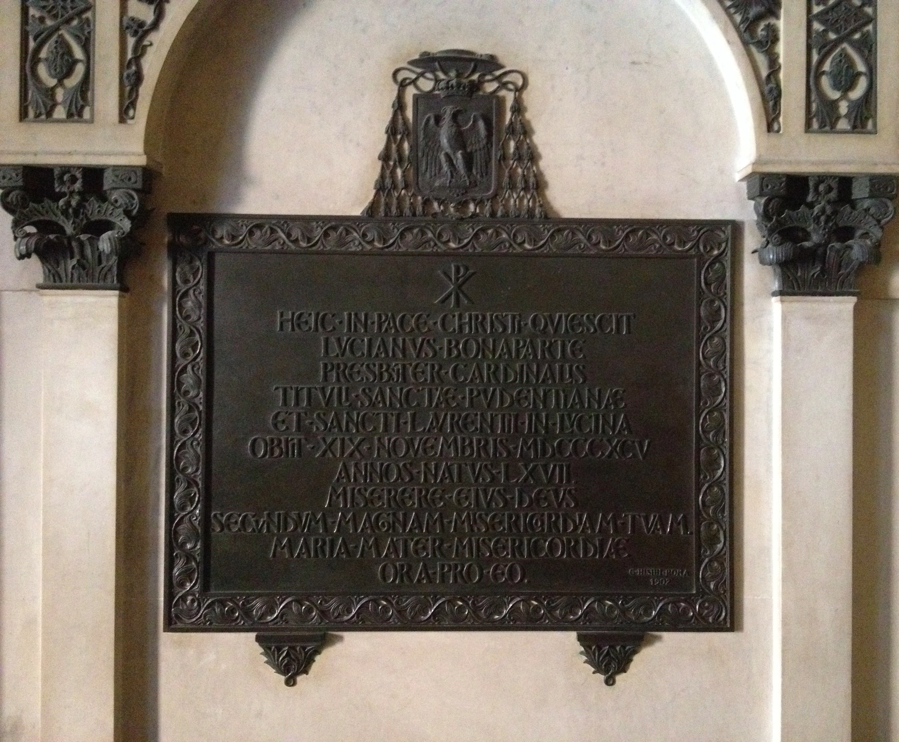 Epitaph of Cardinal Lucien Louis Joseph Napoleon Bonaparte in Rome, Santa Pudenziana